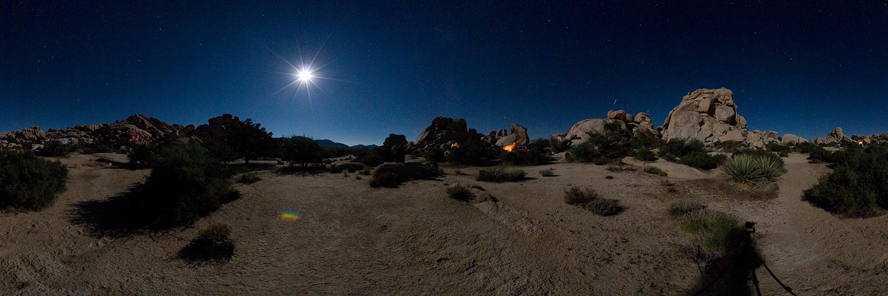 A panorama of Joshua Tree National Park at night, showing a glorious full moon, shooting stars and glowing campfires, by Roger Howard